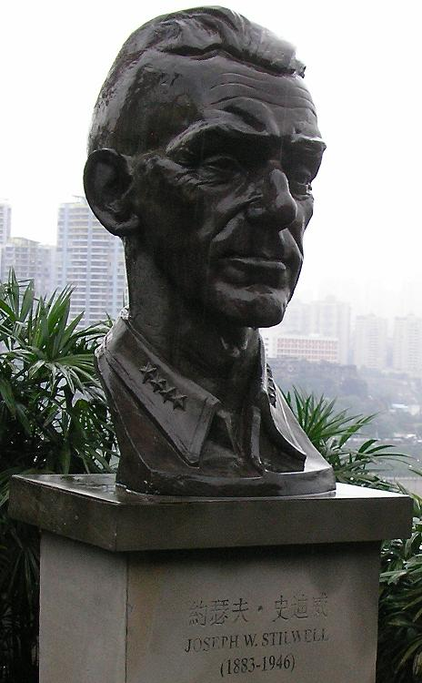 Bust of Joseph Stilwell outside the "Former Residence of General Stilwell" Museum in Chongqing (or Chungking), China. The background buildings are on the other side of the river.